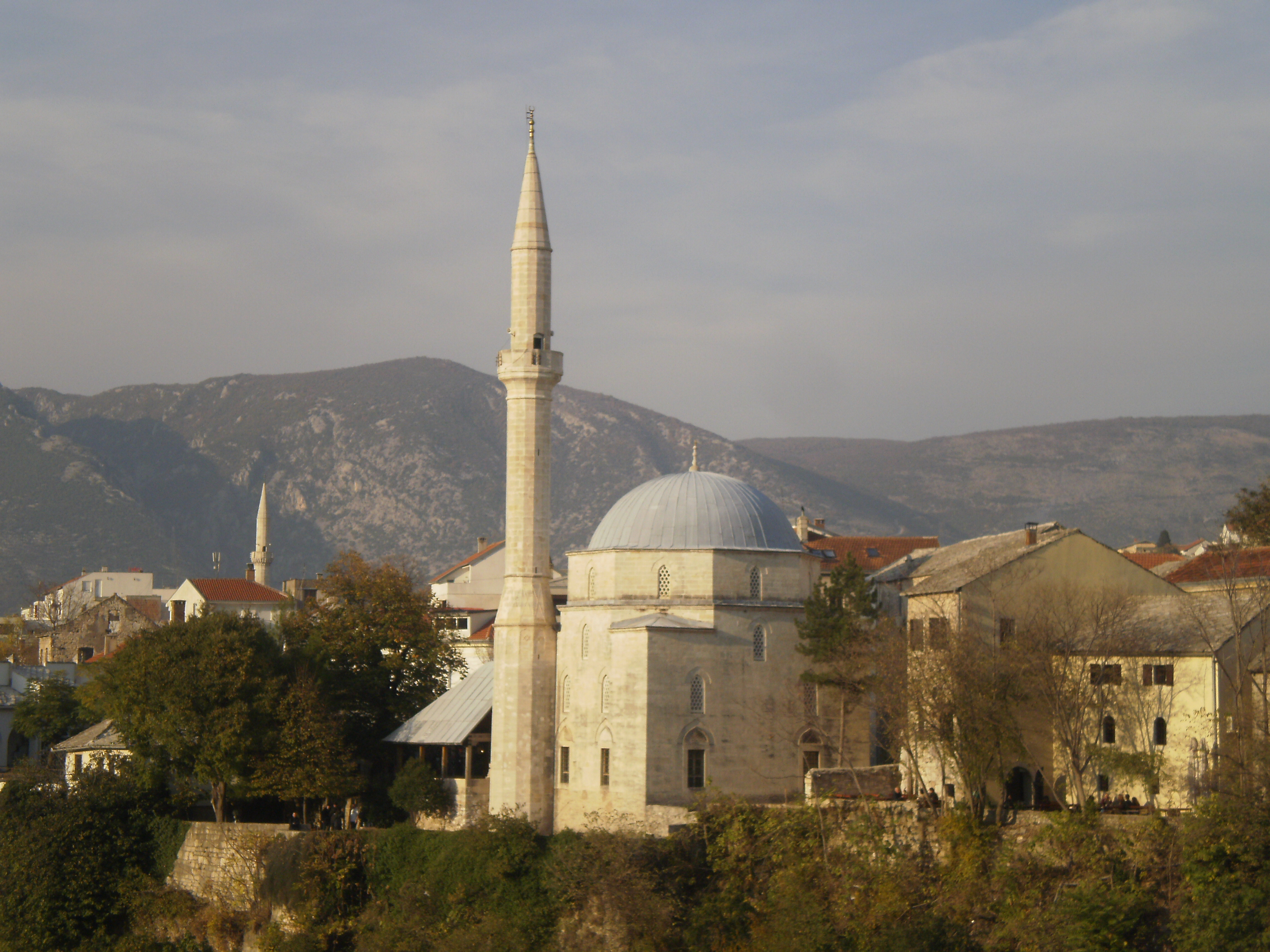 Mosque in Mostar OLYMPUS DIGITAL CAMERA